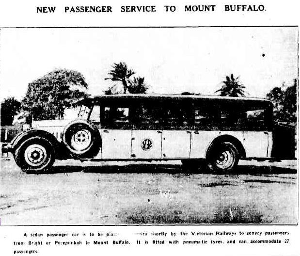 A picture from The Argus newspaper (Melbourne, Victoria) from 17 June 1925 showing the new "sedan passenger car" for carrying up to 27 passengers from the Porepunkah Railway Station to the Mt Buffalo skifield.